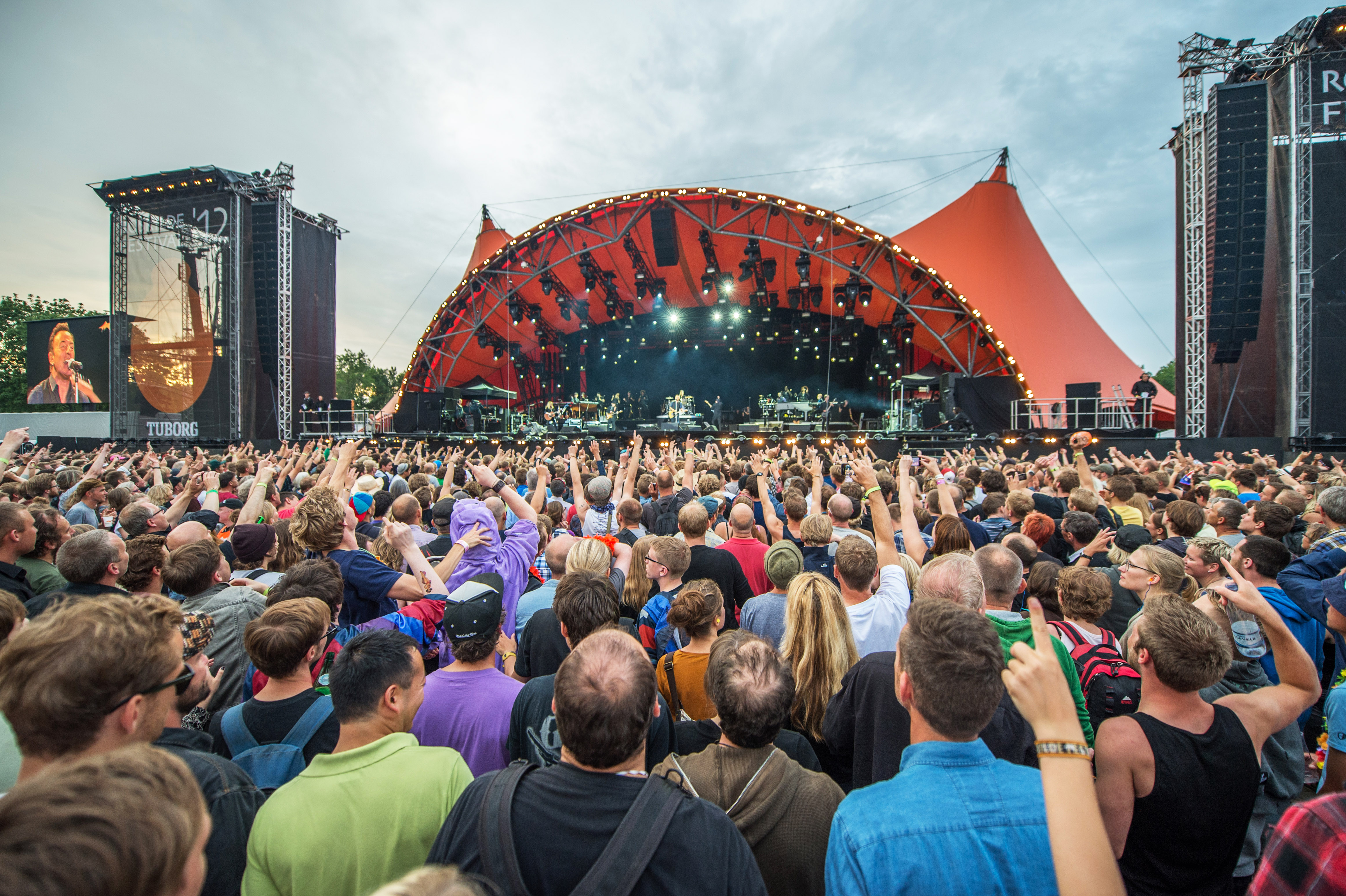 Picture showing Roskilde Festivals main stage, the Orange Stage. Bruce Springsteen performing in the background. Photo by Bill Ebbesen.